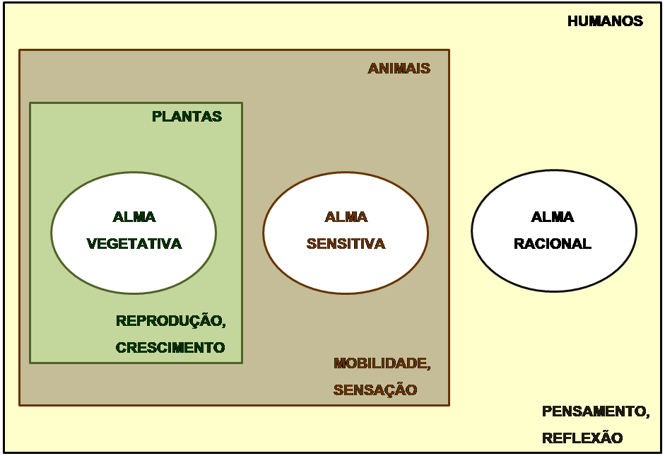 The structure of the souls of plants, animals, and humans, according to Aristotle